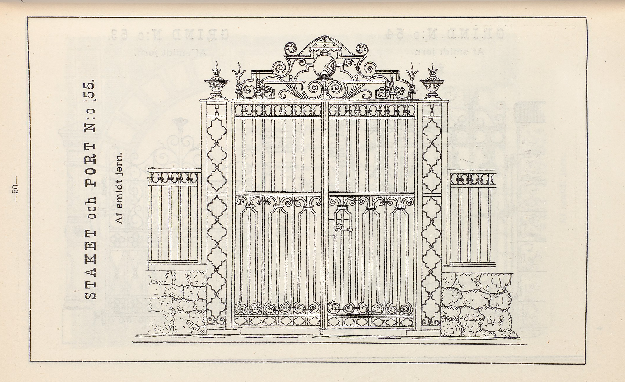 Haddebo jernverk, Hjortqvarn 1892-1896 Ur Kungl. bibliotekets samlingar – [librisid: 14799959] Länk